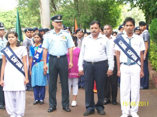 The principal is receiving chief guest AOC with school captains.